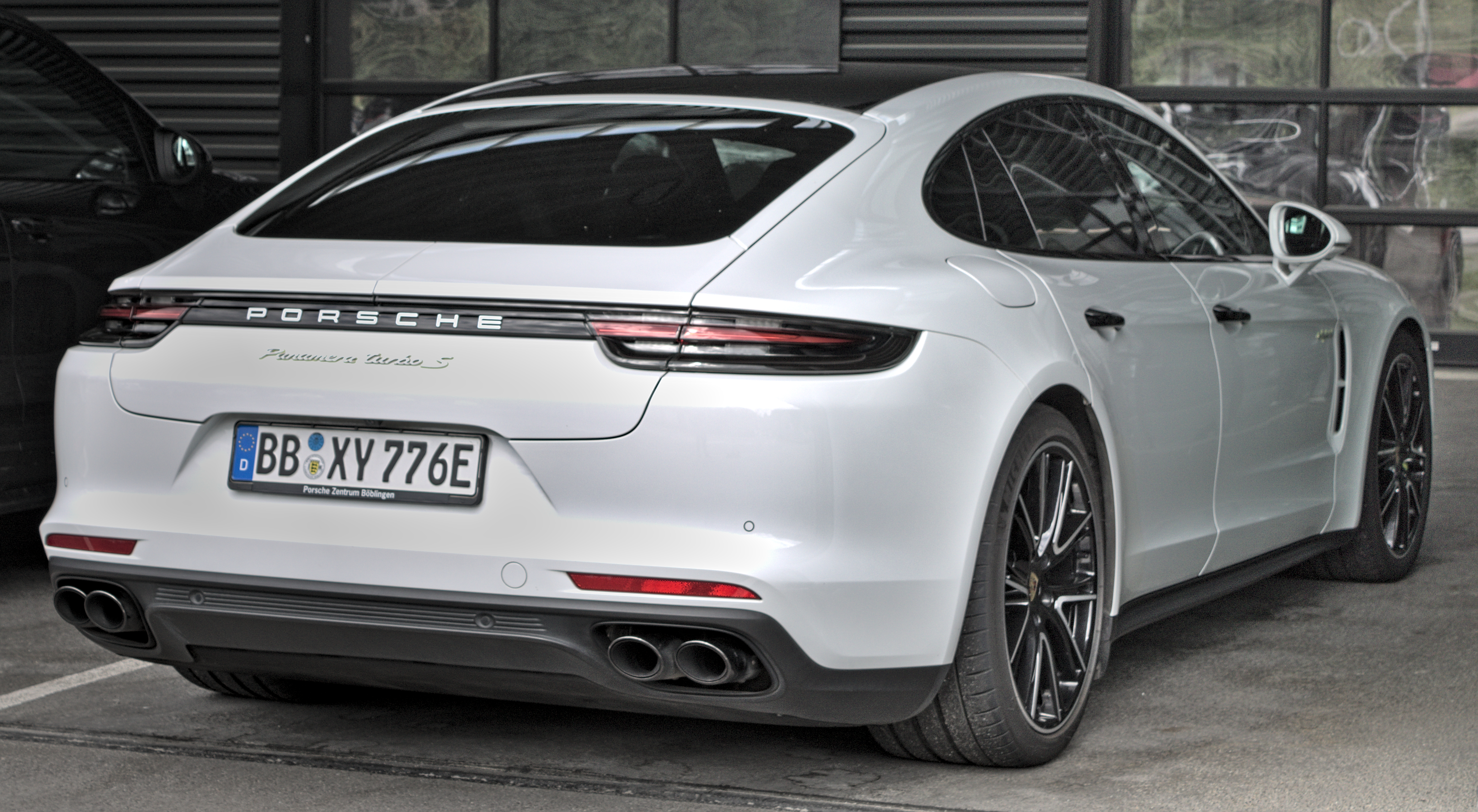 Porsche_971_Panamera_Turbo_S_E-Hybrid in Böblingen